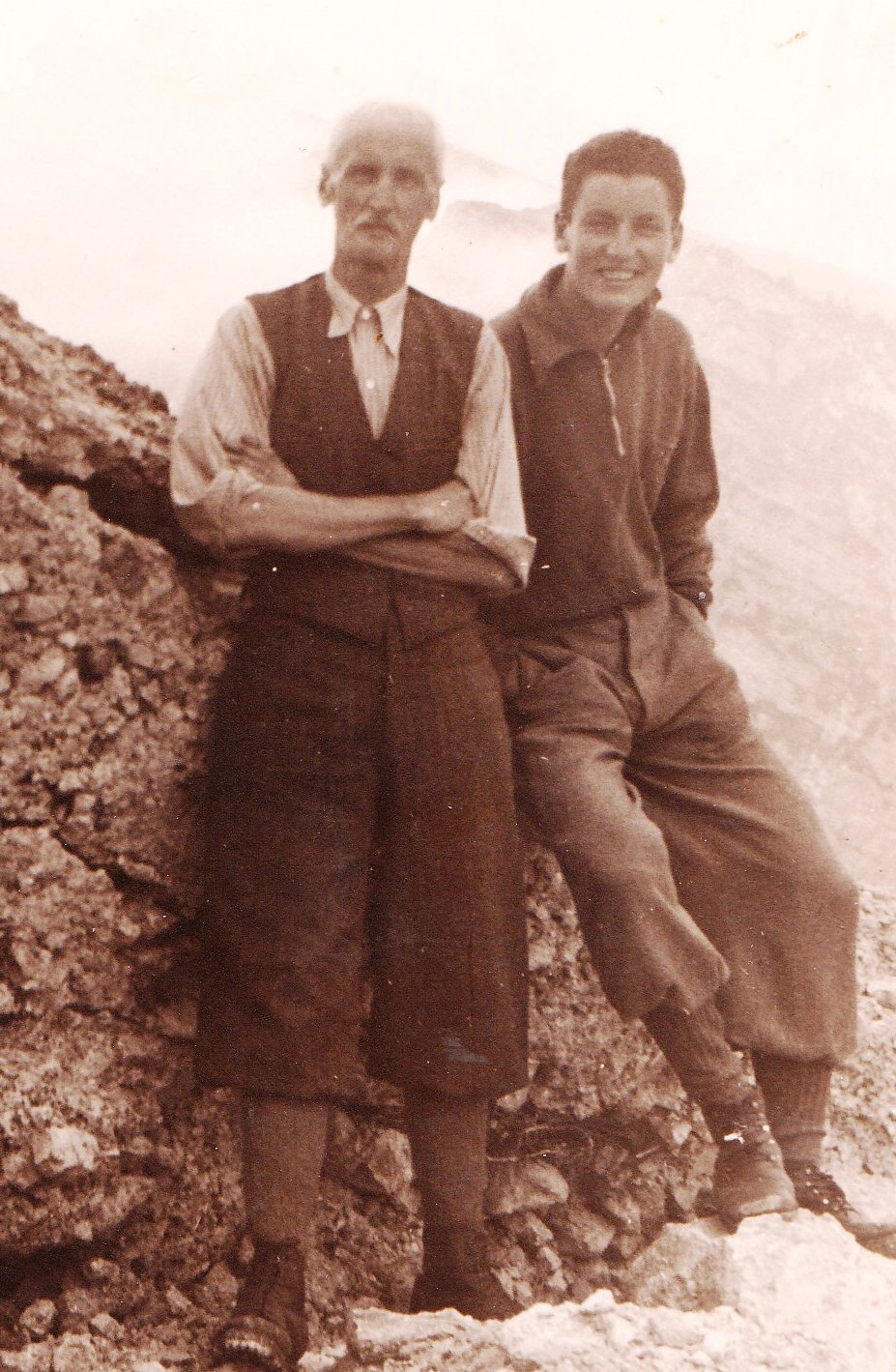 Adolfo and Bruno Cetto on Pizzo di Levico in 1939